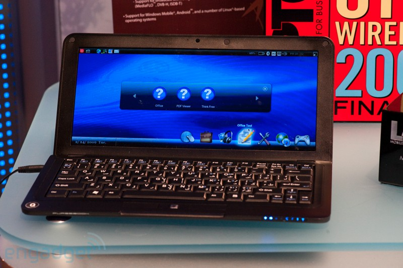 Wistron Pursebook, 1GHz Snapdragon ARM CPU